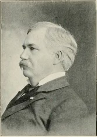 Illustration in History of Iowa From the Earliest Times to the Beginning of the Twentieth Century